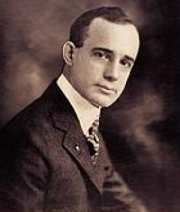 American self-help writer Napoleon Hill (1883-1970) posing for a portrait.